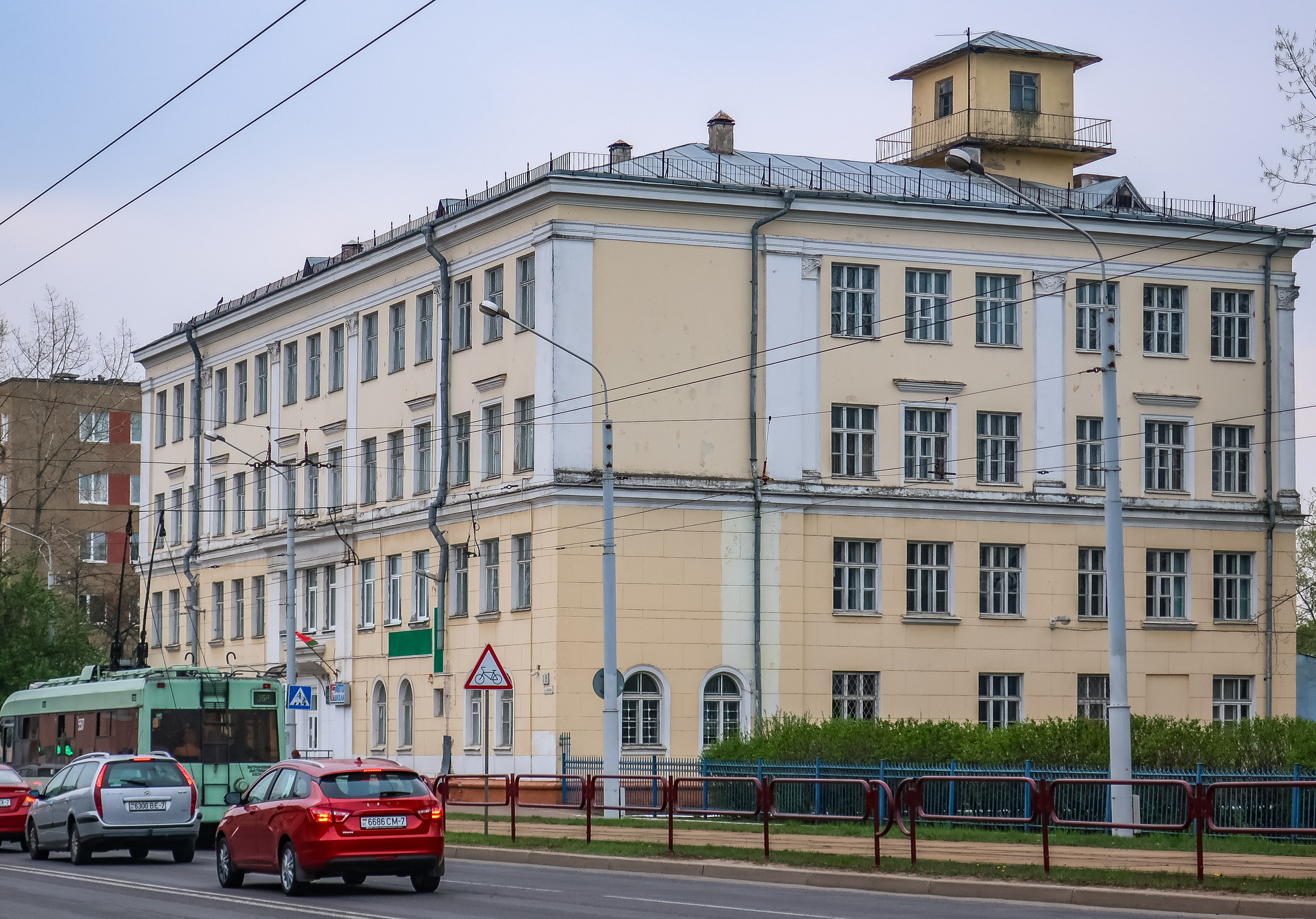 Pliachanava Street (Minsk, Belarus)